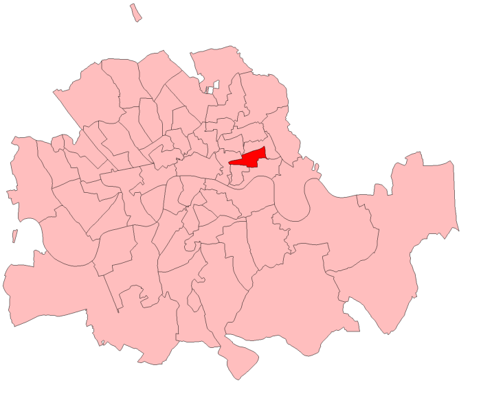 A map of Stepney constituency within the Metropolitan Board of Works area, as it existed from 1885 to 1918.